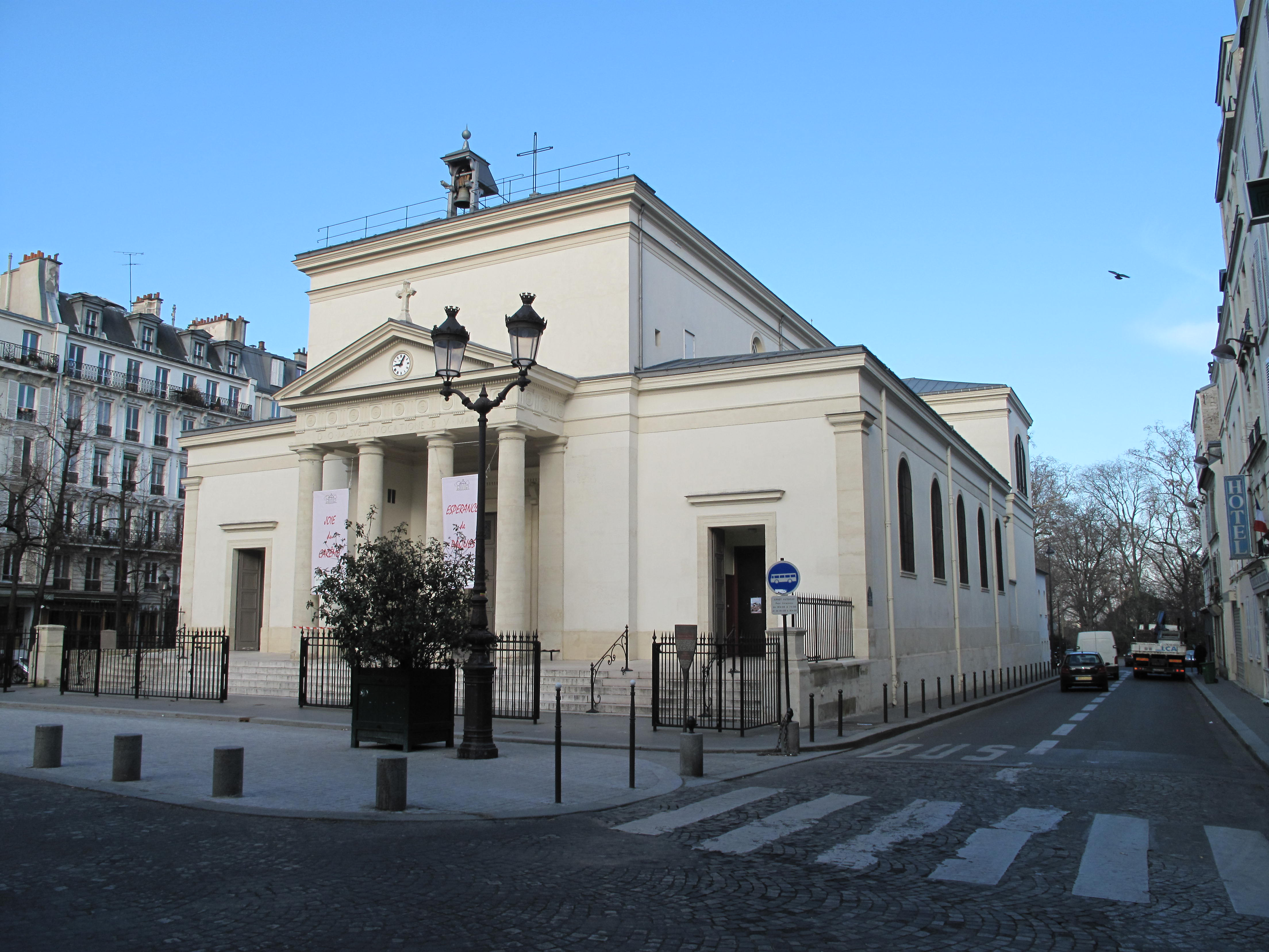 The church Sainte Marie des Batignolles, Paris 17th arr., France